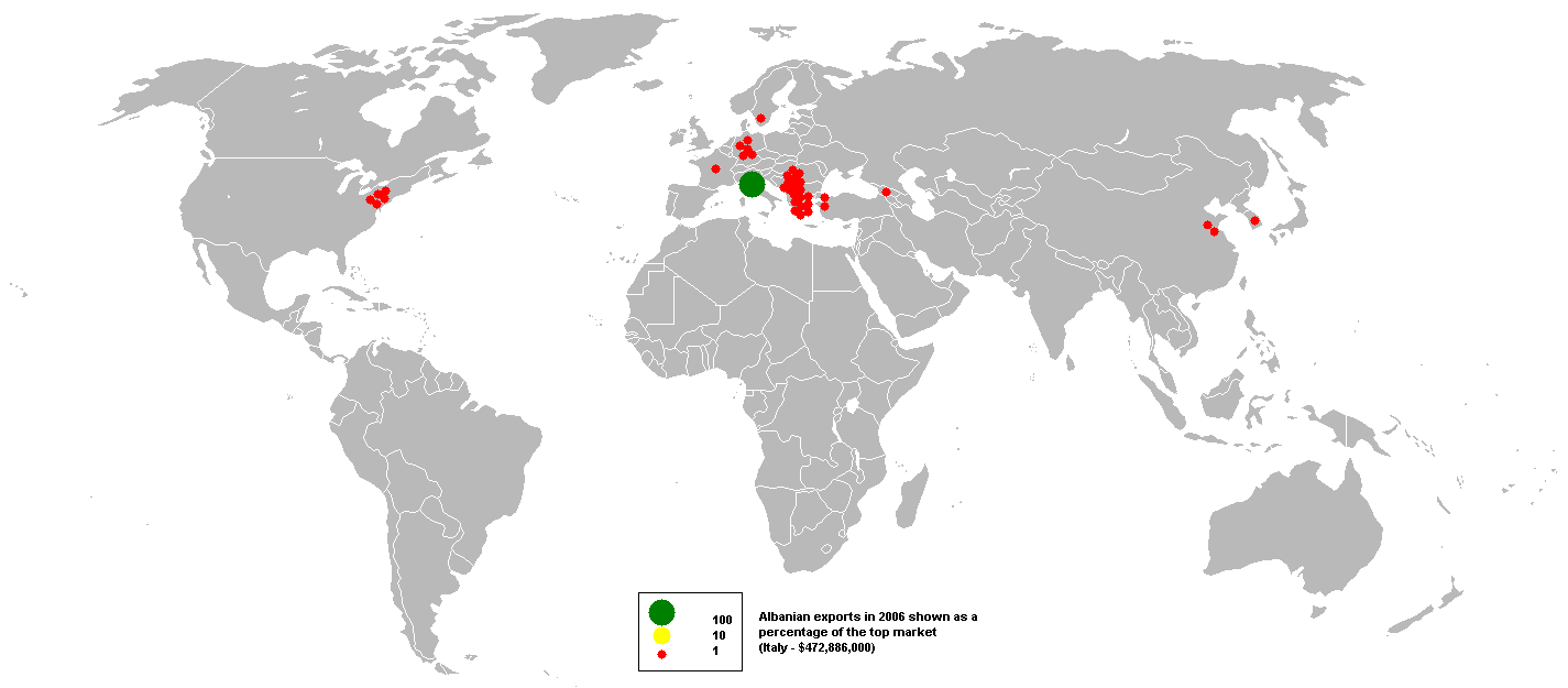 This bubble map shows the global distribution of Albanian exports in 2006 as a percentage of the top market (Italy - $472,886,000). This map is consistent with incomplete set of data too as long as the top producer is known. It resolves the accessibility issues faced by colour-coded maps that may not be properly rendered in old computer screens. Data was extracted on 18th September 2007 from Based on Image:BlankMap-World.png